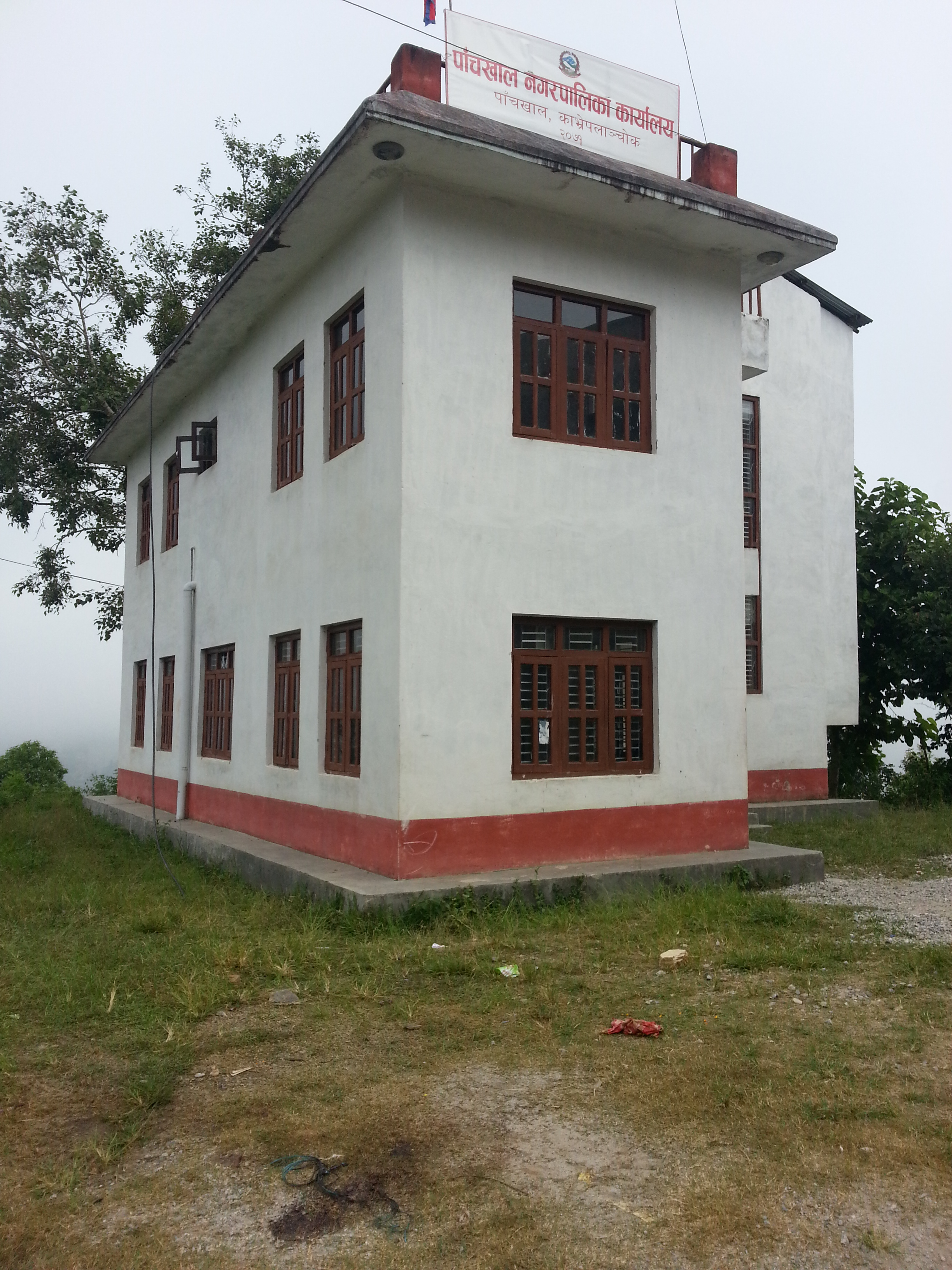 Panchkhal municipality office located at Tinpiple, Kavre.